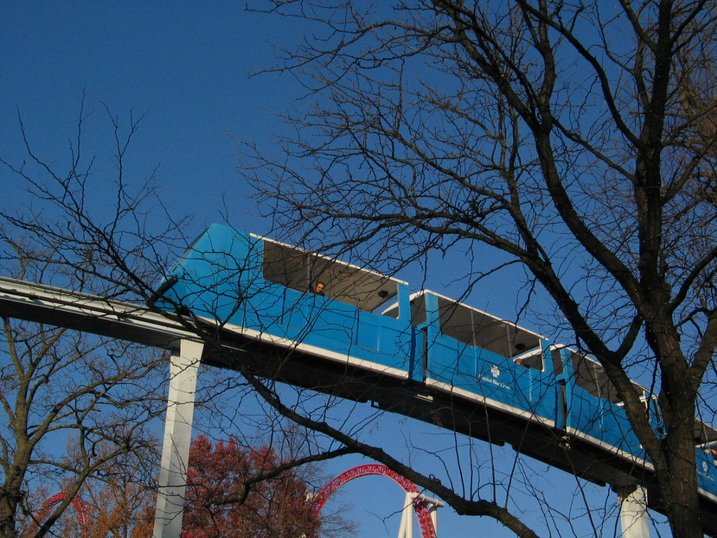 Monorail train in Hershey Amusement Park